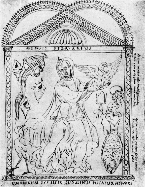 Month of February from in the Chronography of 354 by the 4th century kalligrapher Filocalus. The copies of the original illustrations are pen drawings in a 17th century manuscript from the Barberini collection (Vatican Library, cod. Barberini lat. 2154).